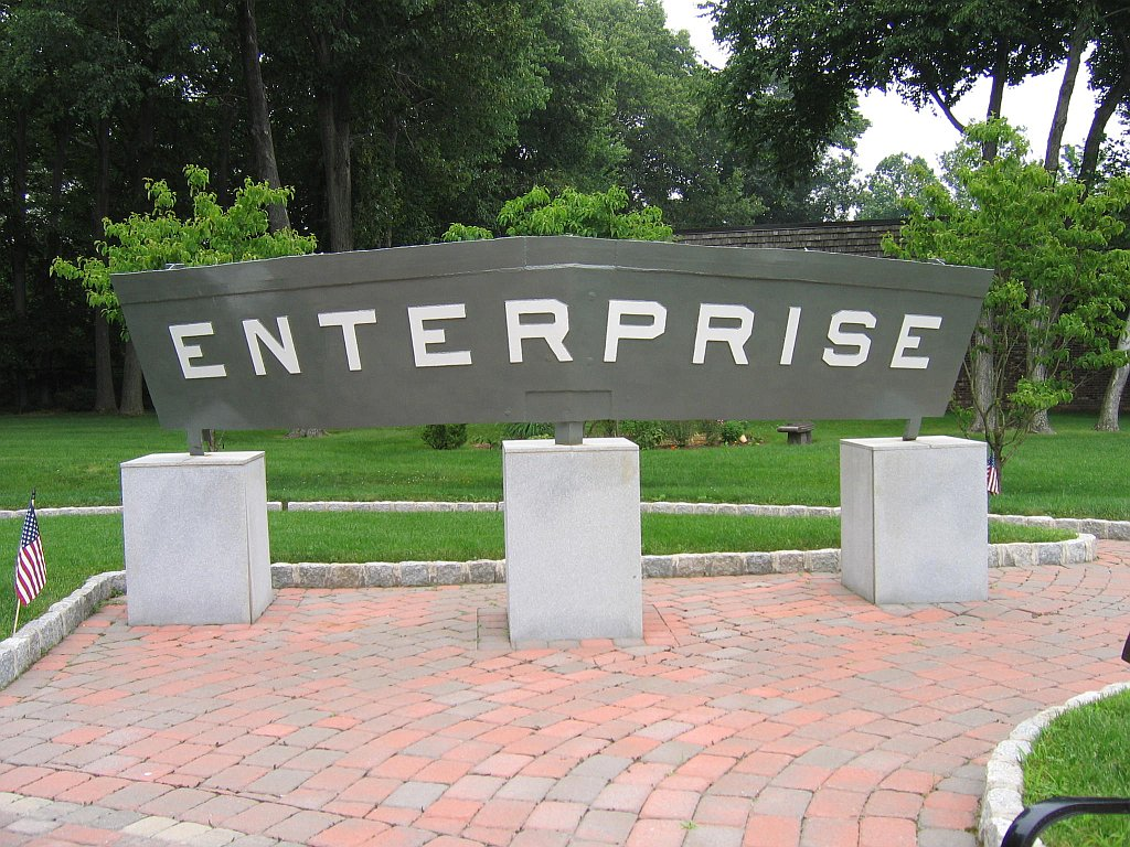 Contributed by Thomas Schneider.